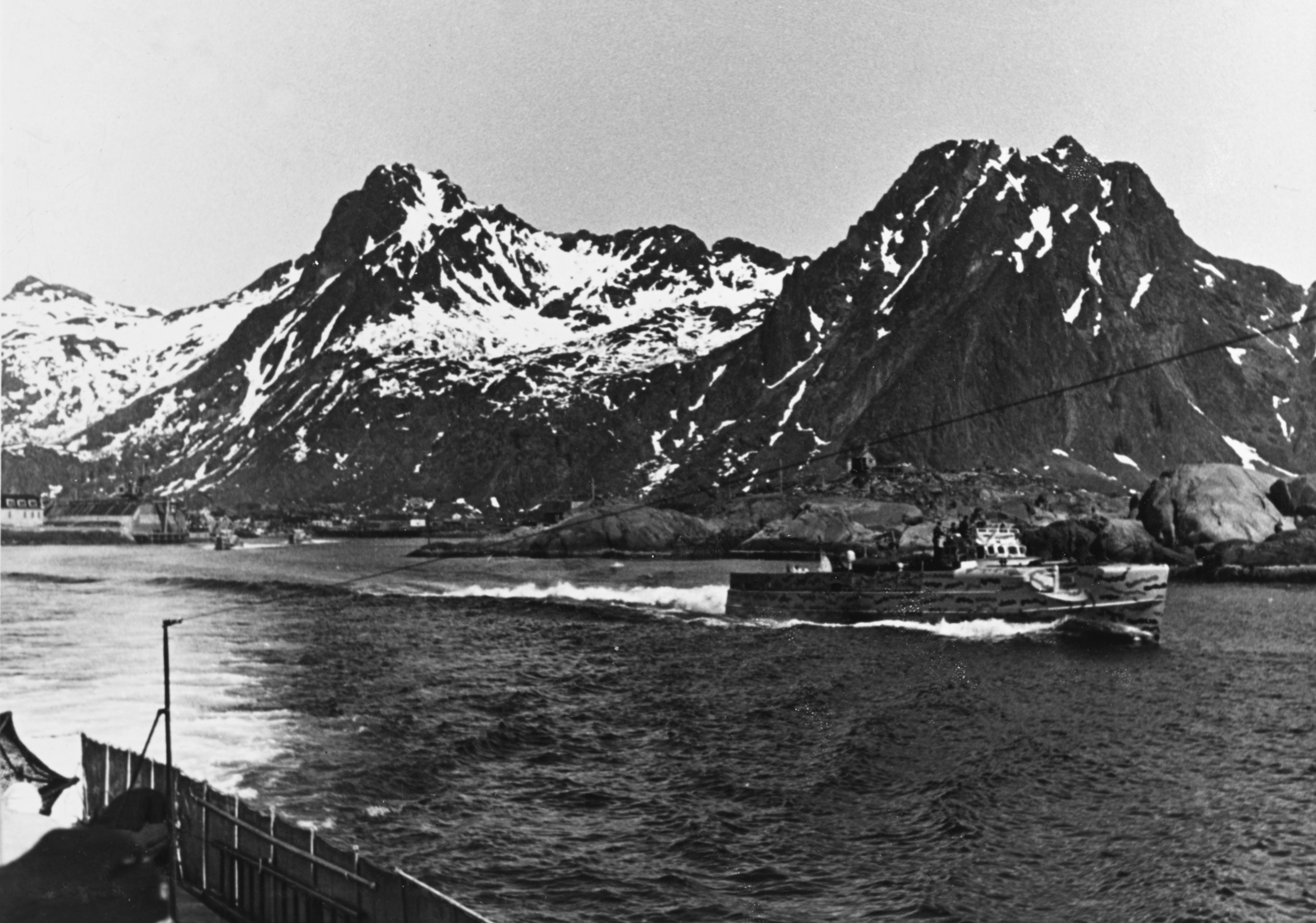 German motor torpedo boats leaving the harbour of Kirkenes, on the Norwegian Arctic Coast, during the Second World War.